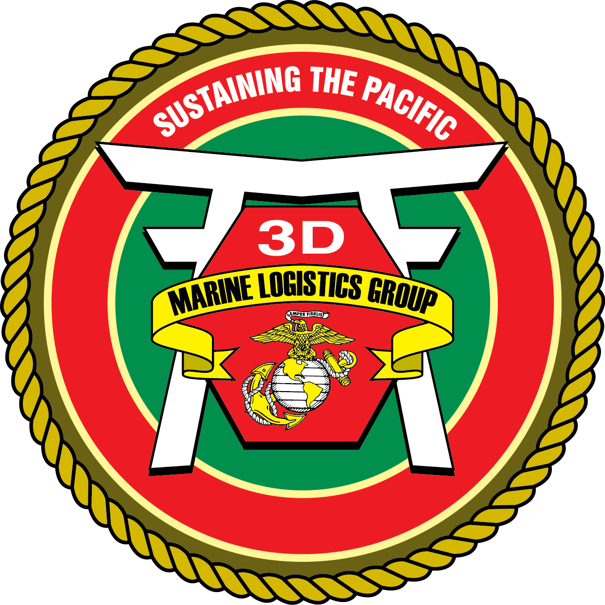 The 2013 logo of the 3d Marine Logistics Group, now bearing the words "Supporting the Pacific."